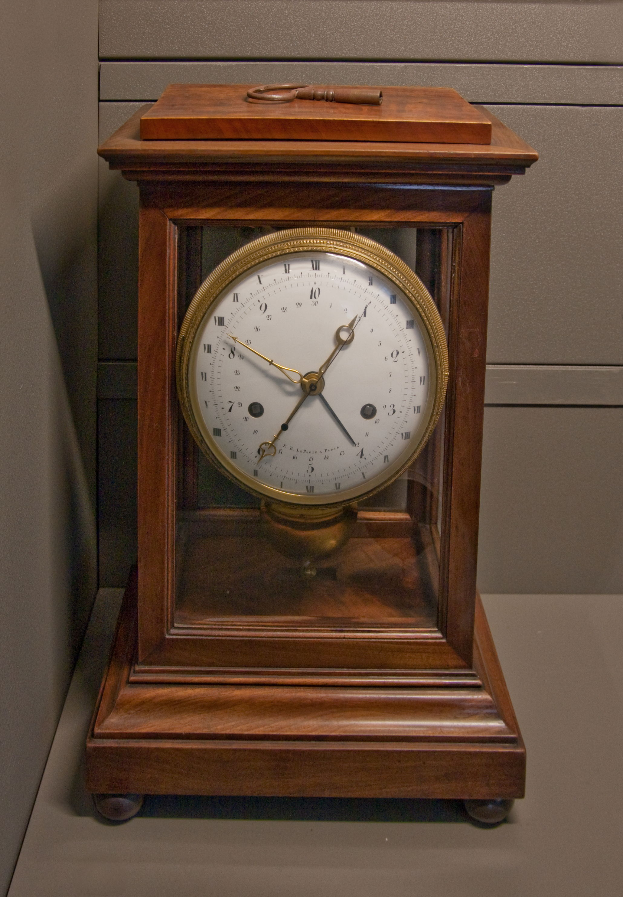 Décimal clock made by Pierre Basile Lepaute, 1795 (French revolution)